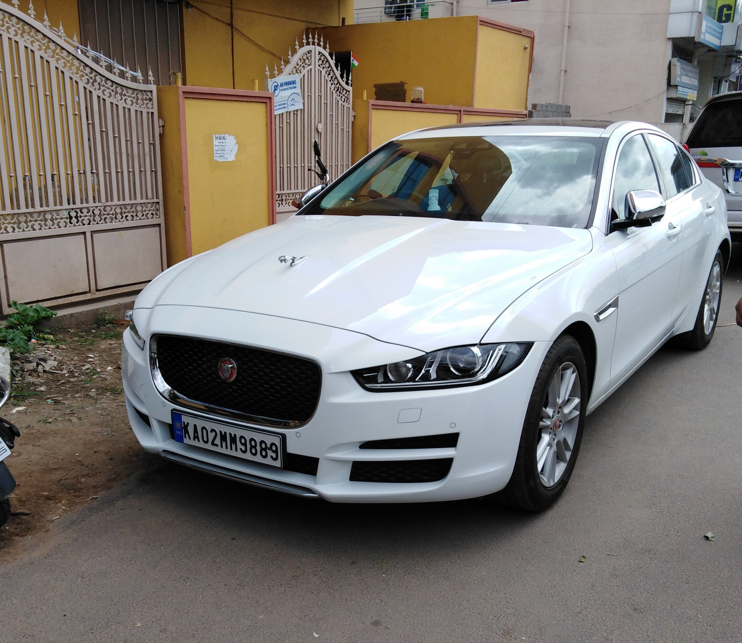 A jaguar XE 2018 on the streets of Bangalore,India